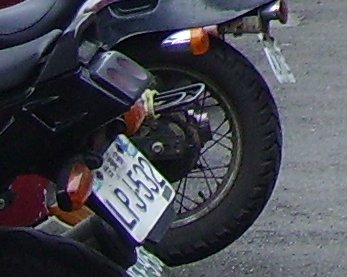 motorcycle license plate in Taipei, Republic of China (Taiwan)